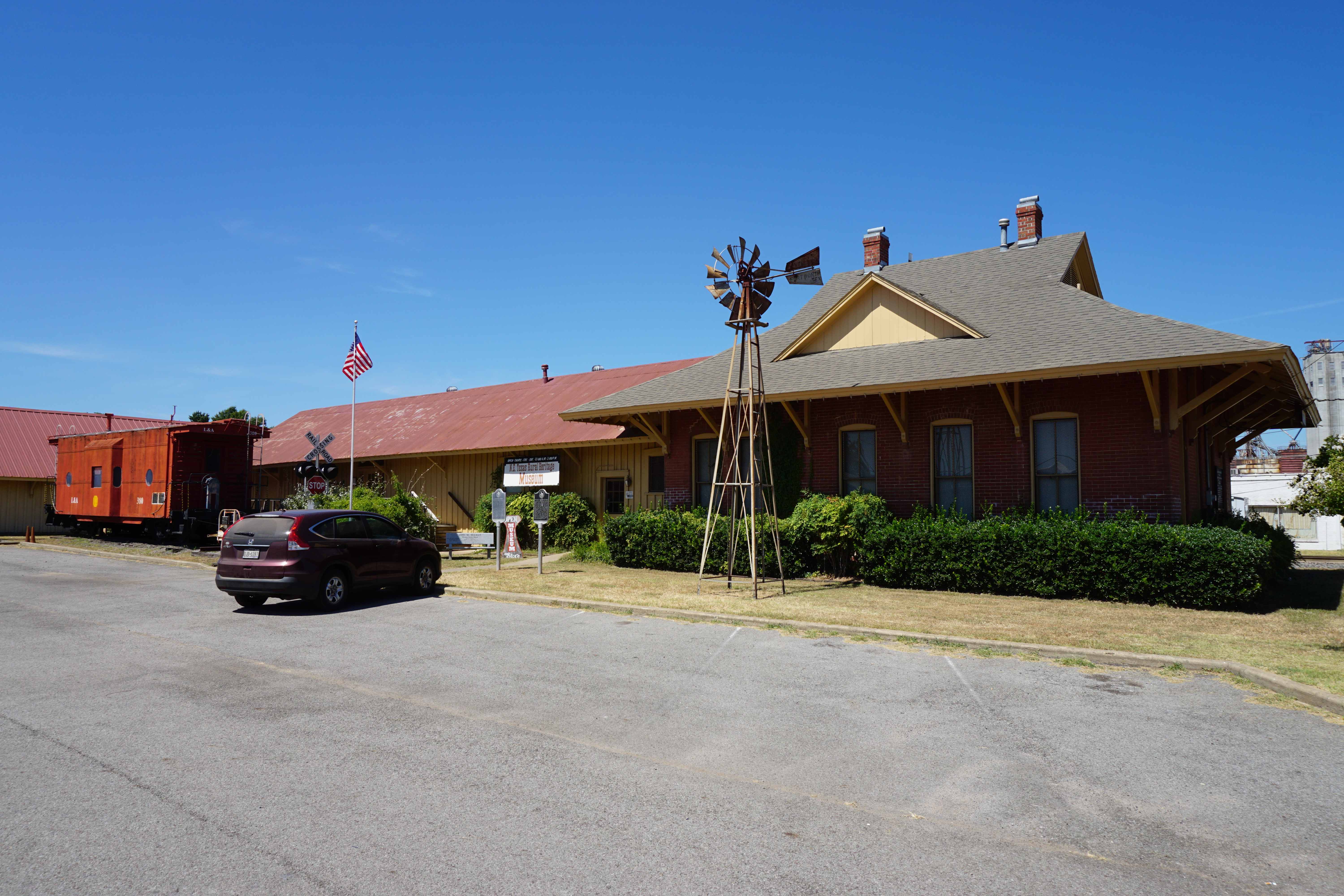 The exterior of the Northeast Texas Rural Heritage Center and Museum in Pittsburg, Texas (United States).